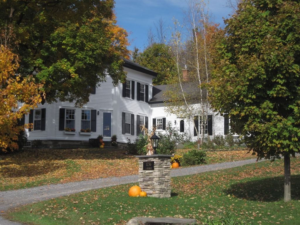 One of only two examples of octagon mode architecture in Duanesburg. Built in the 1850’s by Duanesburg’s most prolific and skilled master carpenter, Alexander Delos “Boss” Jones. Photo by Wendy Voelker